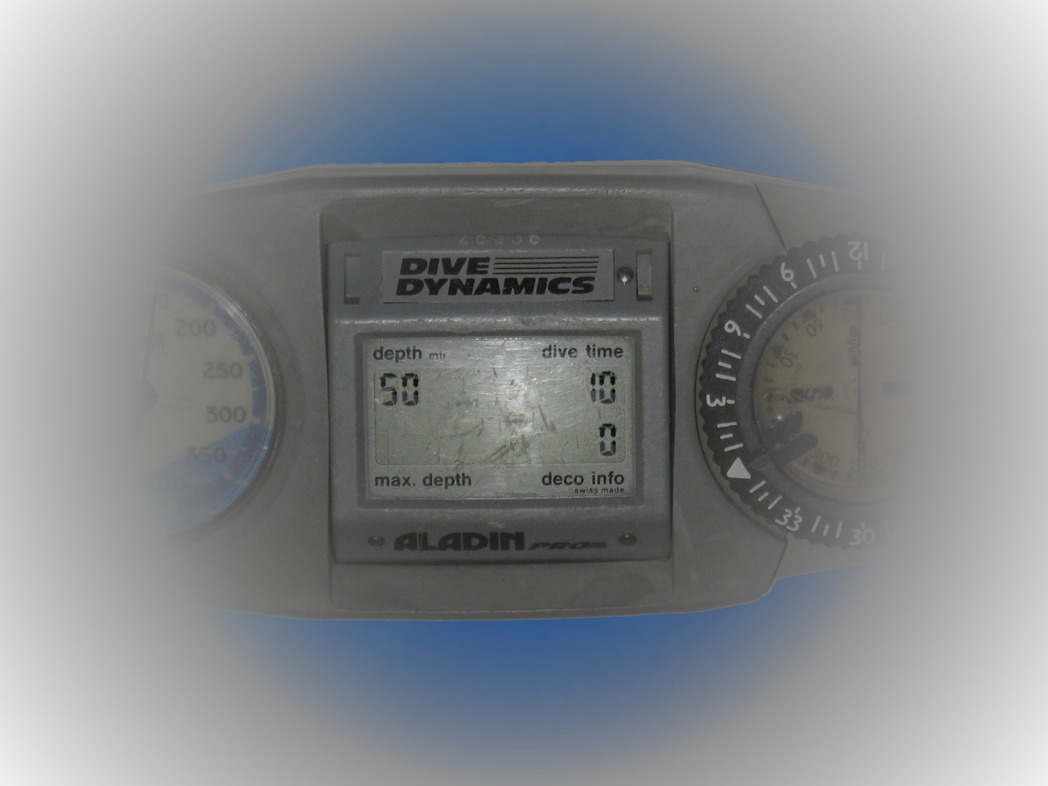 Depiction of narcosis-induced tunnel vision reading a dive computer. Made from photo of own console, edited and grey-scale blend to create tunnel effect using Paint Shop Pro.